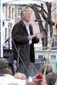 Michael Meacher, UK MP, and former Environment Minister speaking at the rally outside the US Embassy at the end of the march, 2005-12-09. Cropped and adjusted from original.